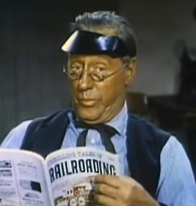 Tom Fadden in Kansas Pacific (1953) - cropped screenshot